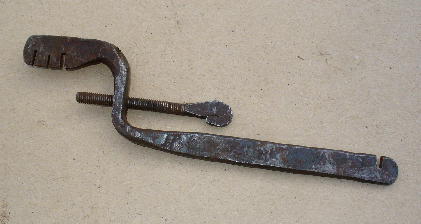 A "saw set" - a device to bend the teeth of a saw slightly left-and-right so that the resulting kerf (width of a cut made by the saw) is wider than its blade.